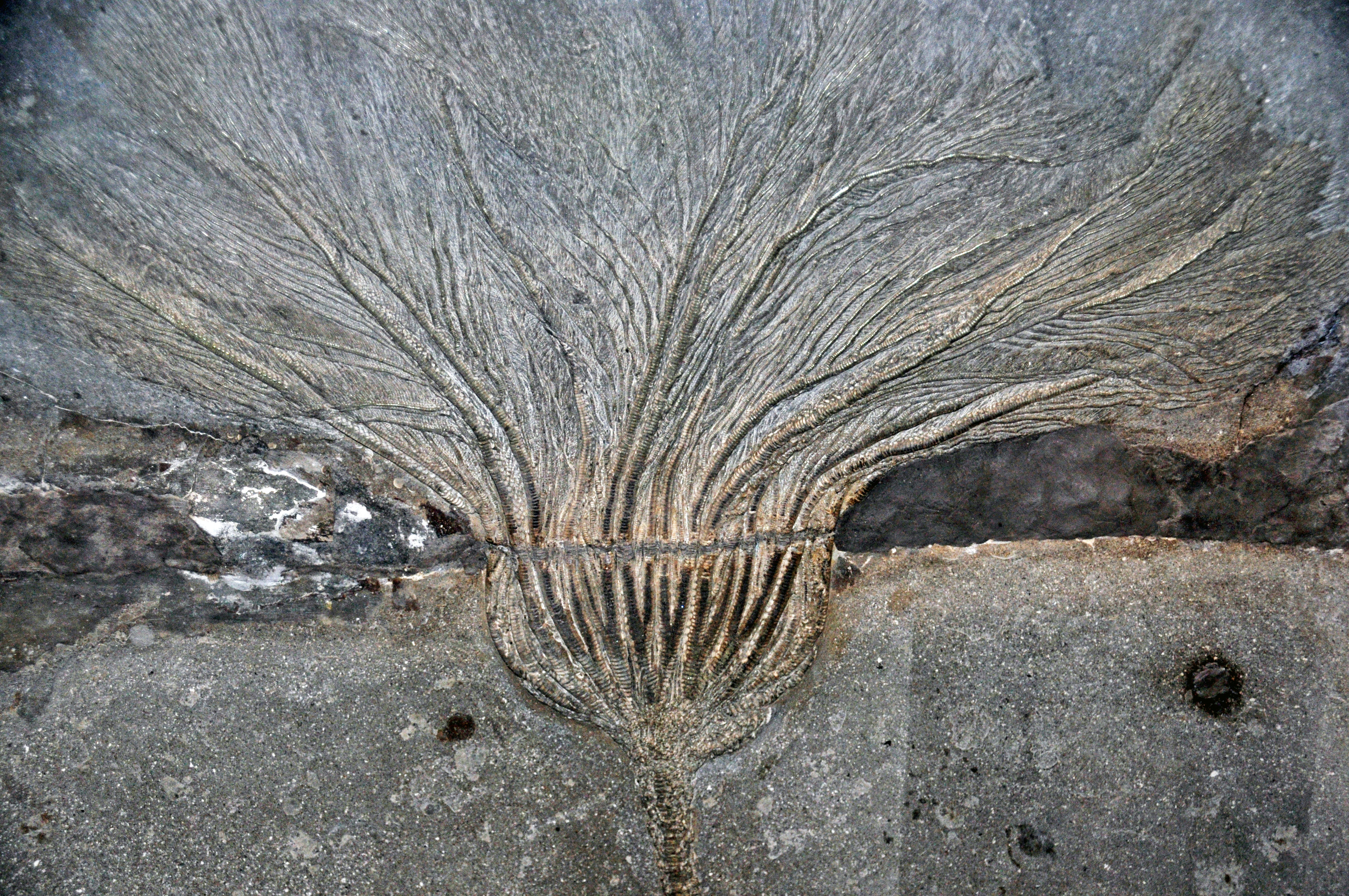 Seirocrinus subangularis (Miller, 1821) - fossil crinoid from the Jurassic of Germany. (CM 34210, Carnegie Museum of Natural History, Pittsburgh, Pennsylvania, USA) Crinoids (sea lilies) are sessile, benthic, filter-feeding, stalked echinoderms that are relatively common in the marine fossil record. Crinoids are also a living group, but are relatively uncommon in modern oceans. A crinoid is essentially a starfish-on-a-stick. The stick, or stem, is composed of numerous stacked columnals, like small poker chips. Stems and individual columnals are the most commonly encountered crinoid fossils in the field. Classification: Animalia, Echinodermata, Crinoidea, Articulata, Isocrinida, Pentacrinitidae Stratigraphy: Holzmaden Lagerstätte, Posidonia Shale, Toarcian Stage, upper Lower Jurassic Locality: unrecorded/undisclosed site at or near the town of Holzmaden, southwestern Germany